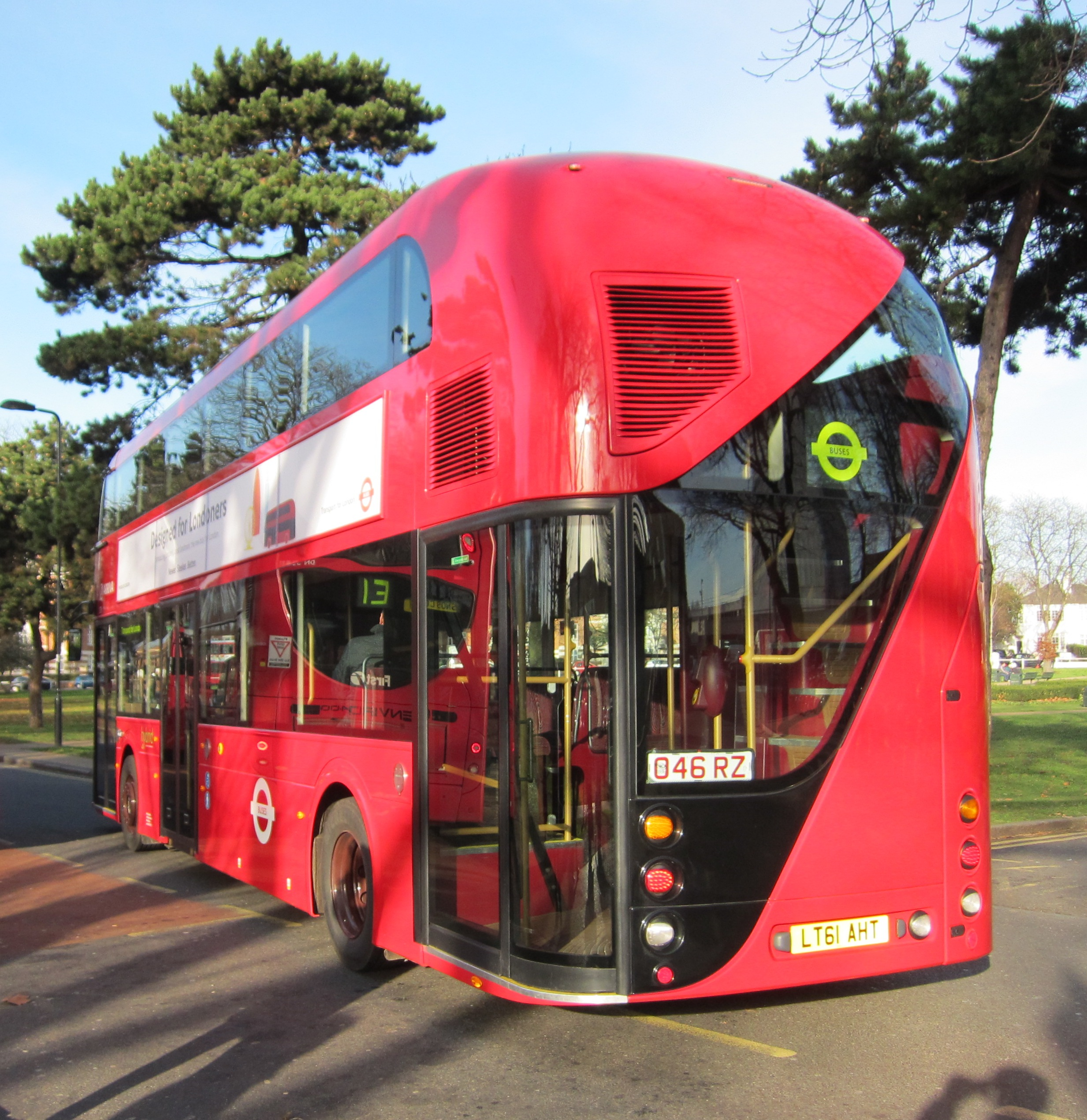 Arriva London bus LT1 (reg. LT61 AHT), the first of the batch of 8 pre-production working prototypes of the New Bus for London. Already wearing Arriva London livery, it's pictured here in Haven Green, Ealing while on its tour around the city for public viewings, prior to entering trial revenue earning service on Arriva's London Buses route 38 as additional short worked extras. Reflecting in the windows is an Enviro400 operating London Buses route E1.